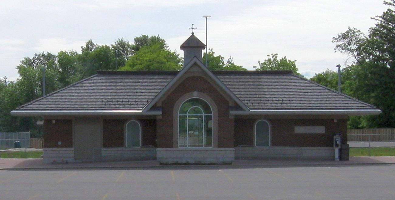 King City GO station, taken from Keele St.